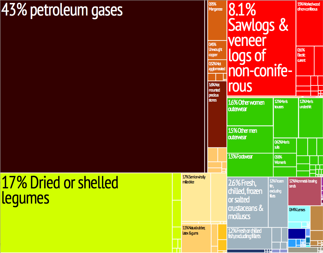 Export Trading Treemap. From MIT/Harvard Atlas of Economic Complexity